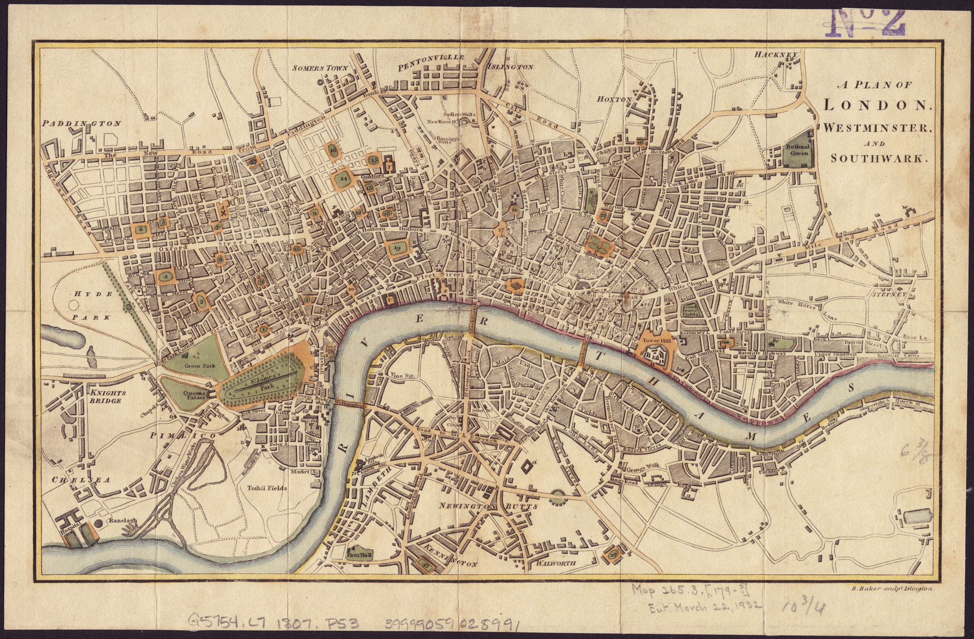 Zoom into this map at . Author: Baker, Benjamin Publisher: Phillips, R. Date: 1807 Location: London (England), Southwark (London, England), Westminster (London, England) Dimension: 17x28cm Scale: [1:26,750] Call Number: G5754.L7 1807 .P53